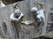 Abbildungen auf dem Historienbrunnen in der Fußgängerzone in Bergheim